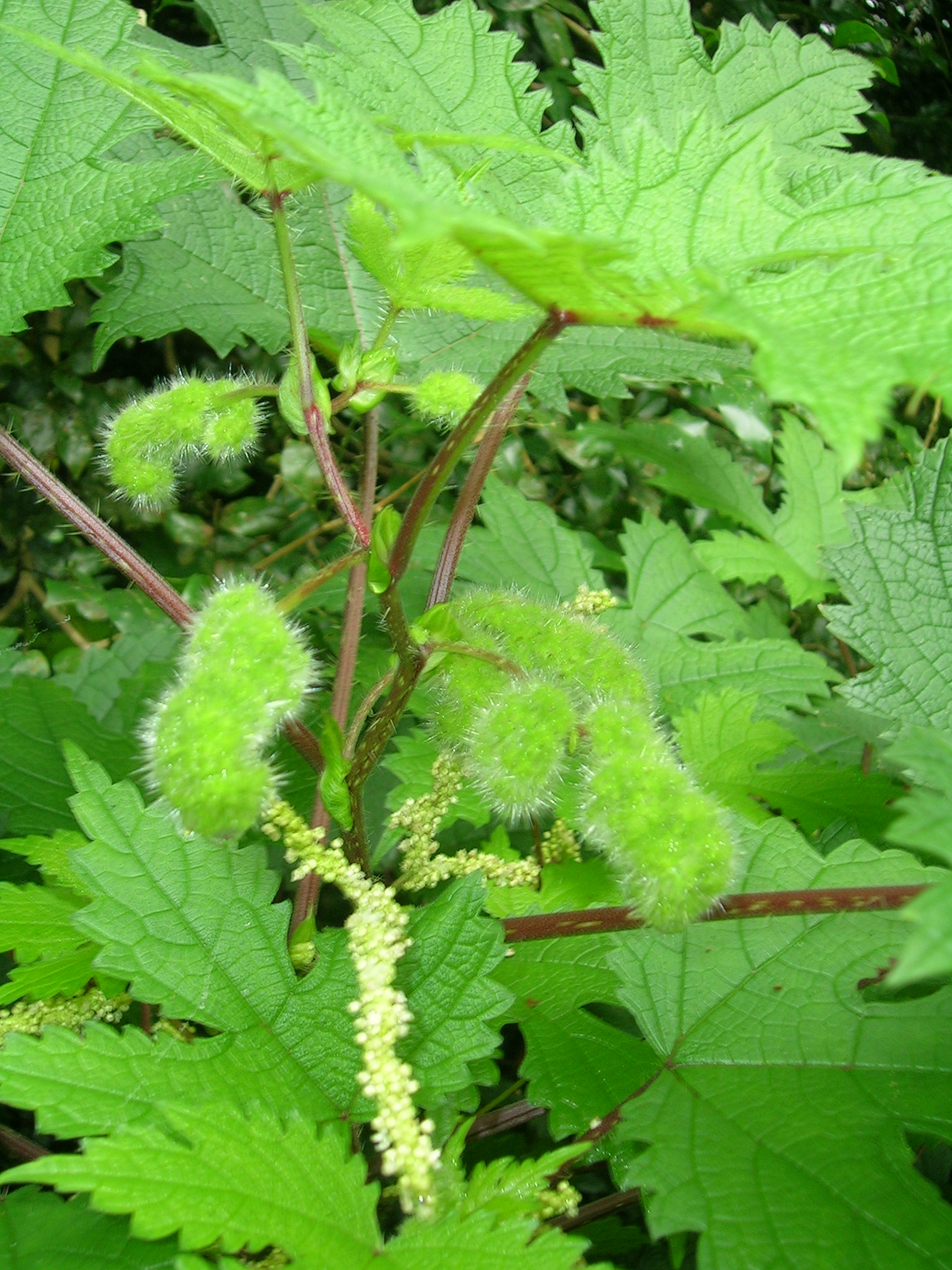 Girardinia sp. - Urticaceae - from Nandi Hills, India